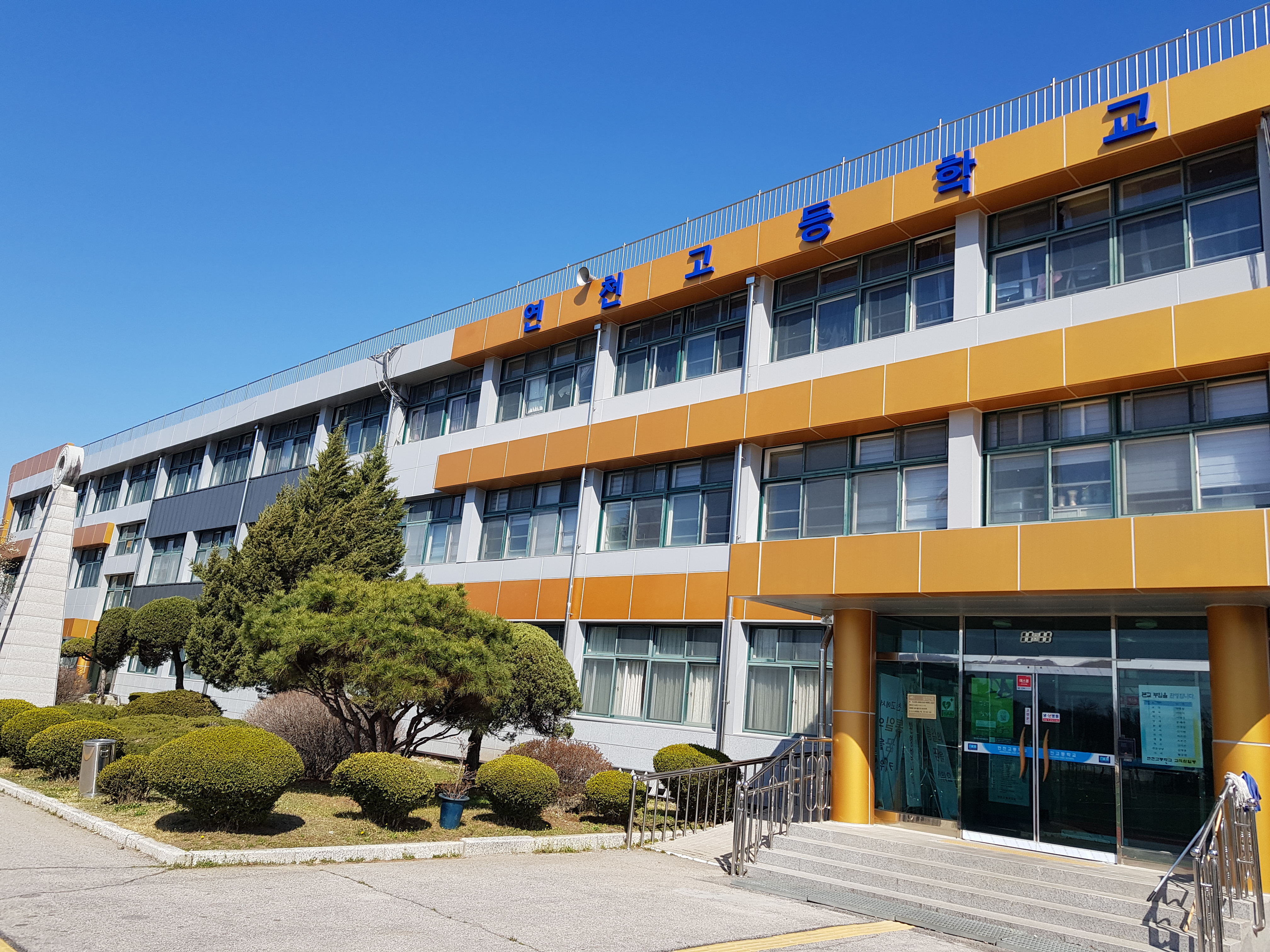 yeoncheon high school